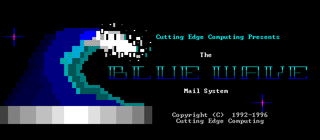 Welcome screen, used in the Blue Wave Mail Door v3.20.